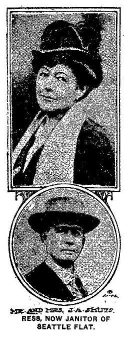 Mr. and Mrs. John Andy Smuts (May Yohé)